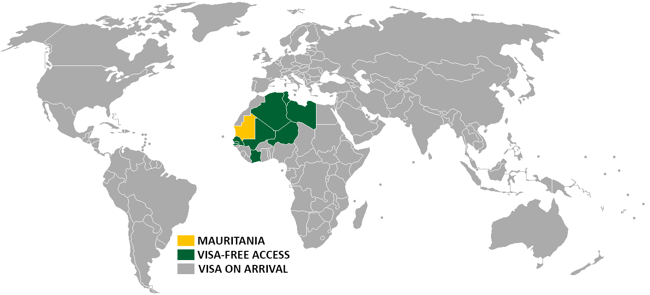 Visa policy of Mauritania Mauritania Visa exempt Visa on arrival